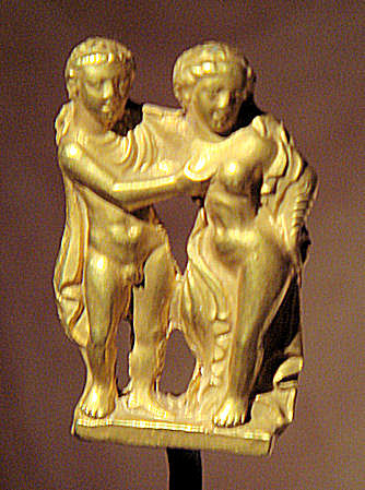 Hellenistic couple from Taxila IV photographed at Musee Guimet